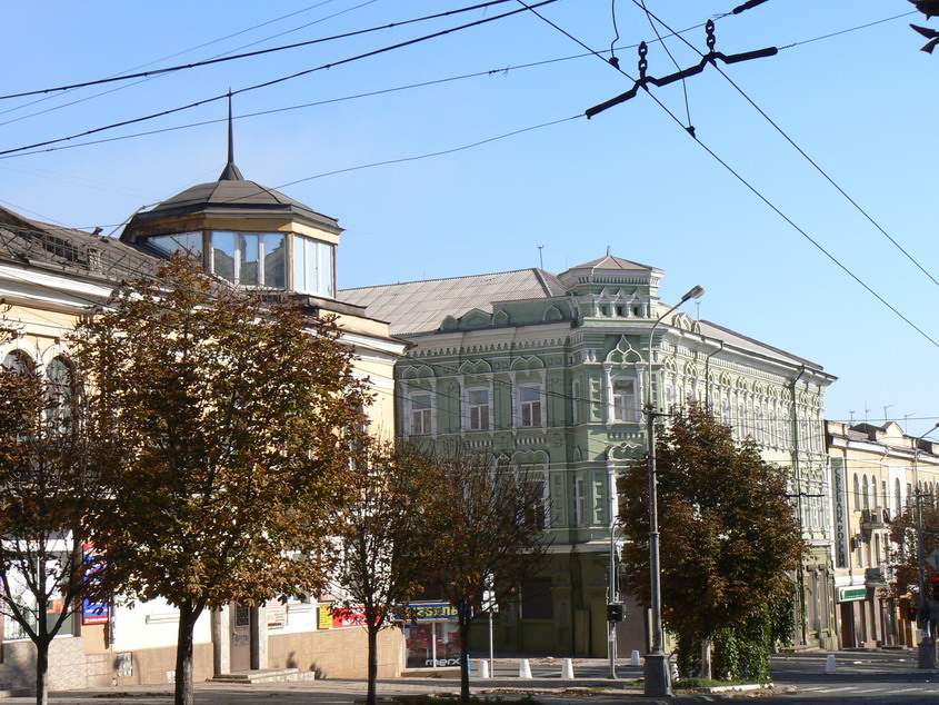 Former Continental Hotel